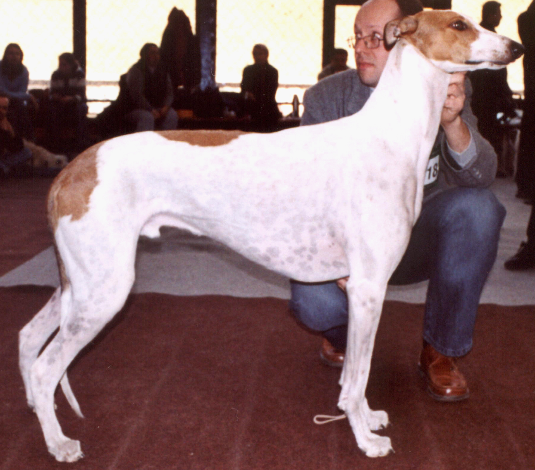 Greyhound autor: Pleple2000